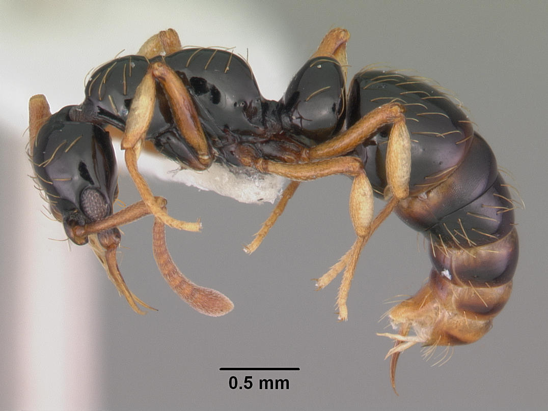 Profile view of ant Thaumatomyrmex atrox specimen casent0010852.